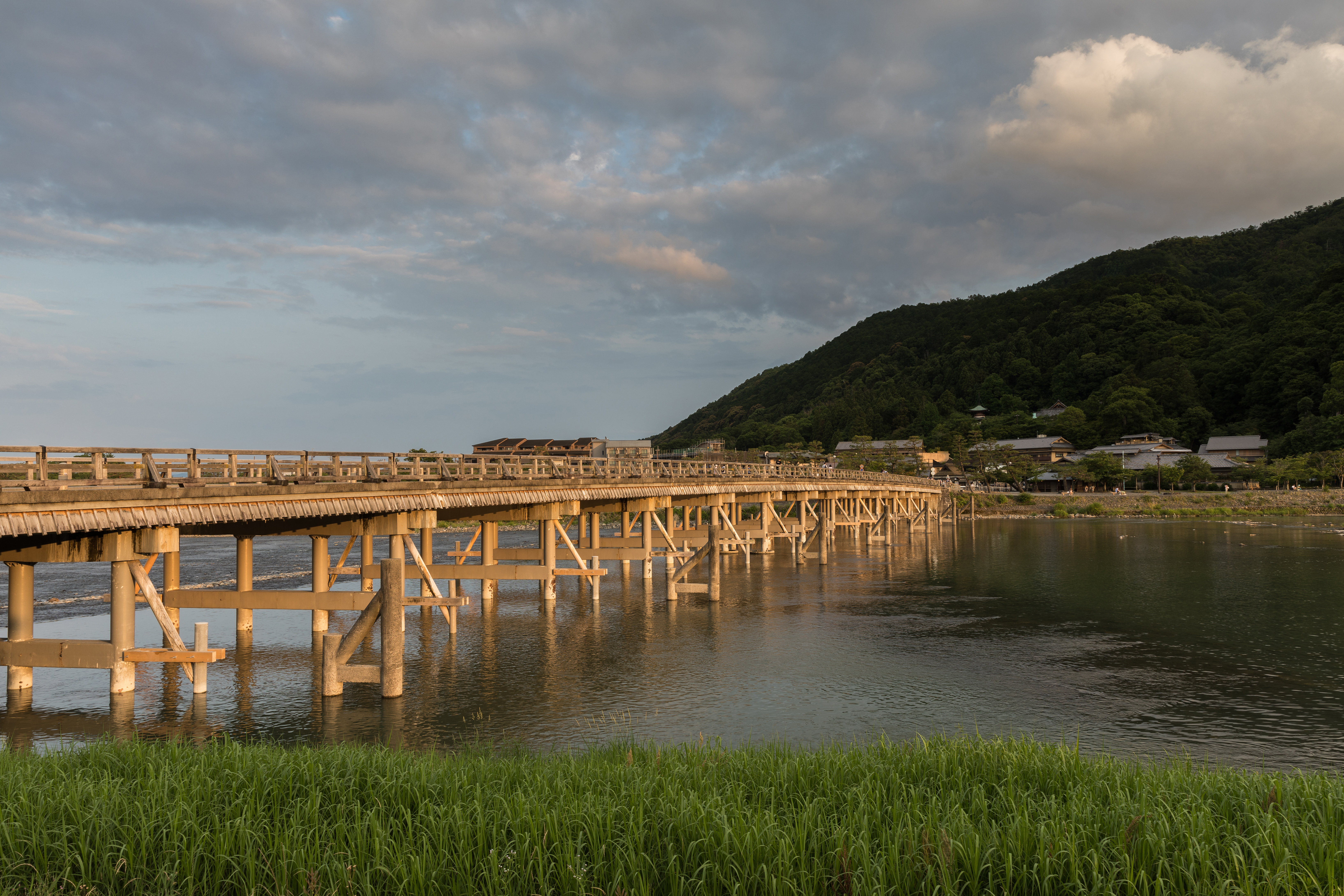 Togetsu-kyō bridge at golden hour, Kyoto, Japan.